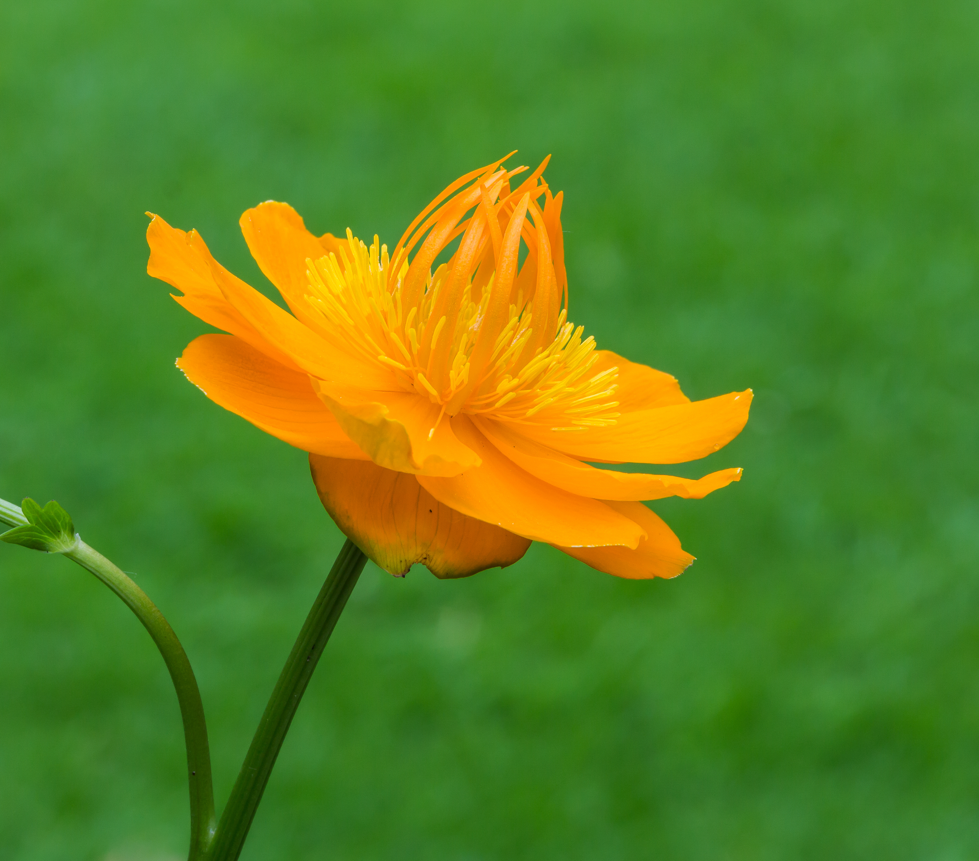 Trollius chinensis 'Golden Queen', striking flower with warm orange color. Location: Garden Sanctuary Jonker Valley is part of Garden Reserves in the Netherlands.